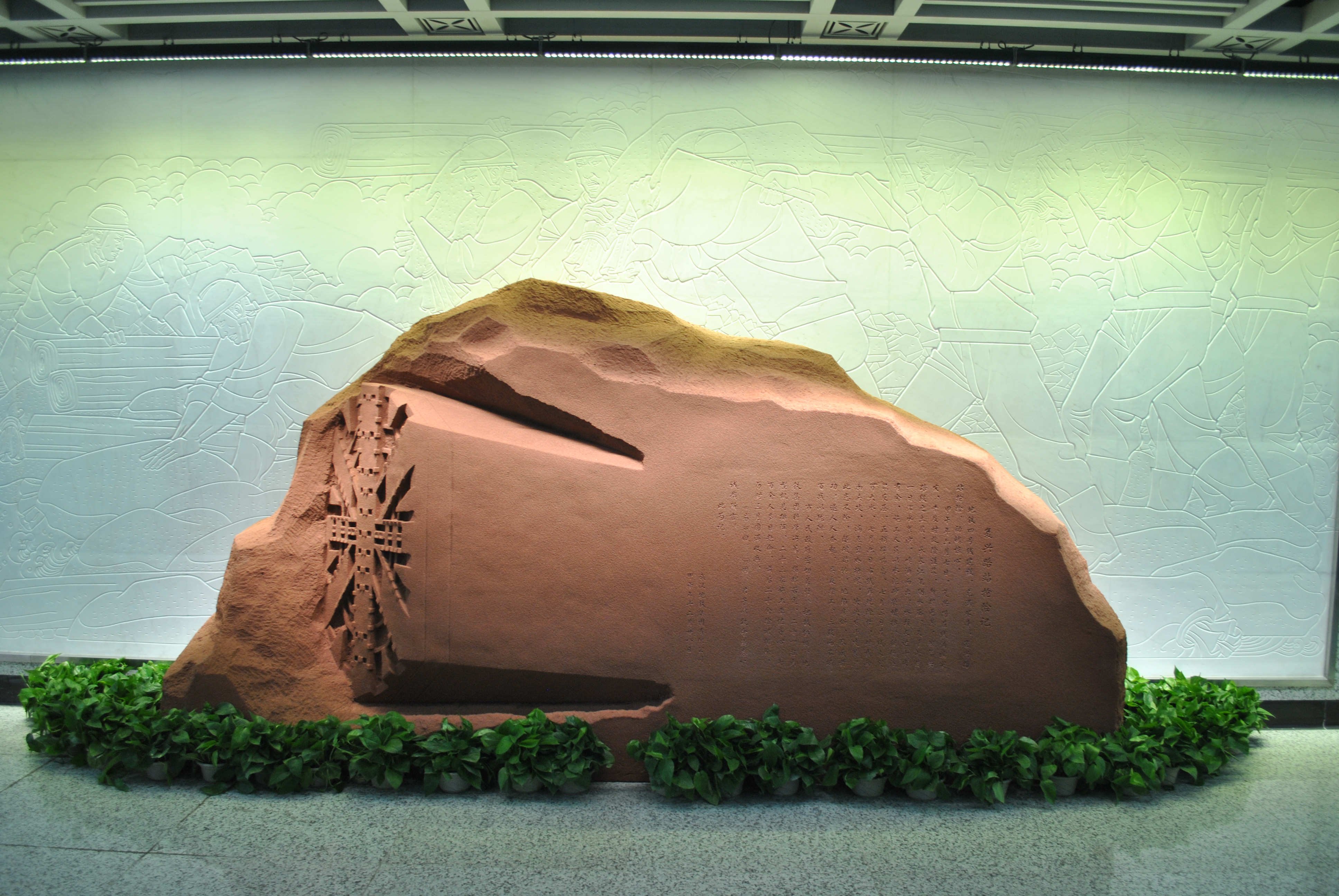 Fuxing Road Station